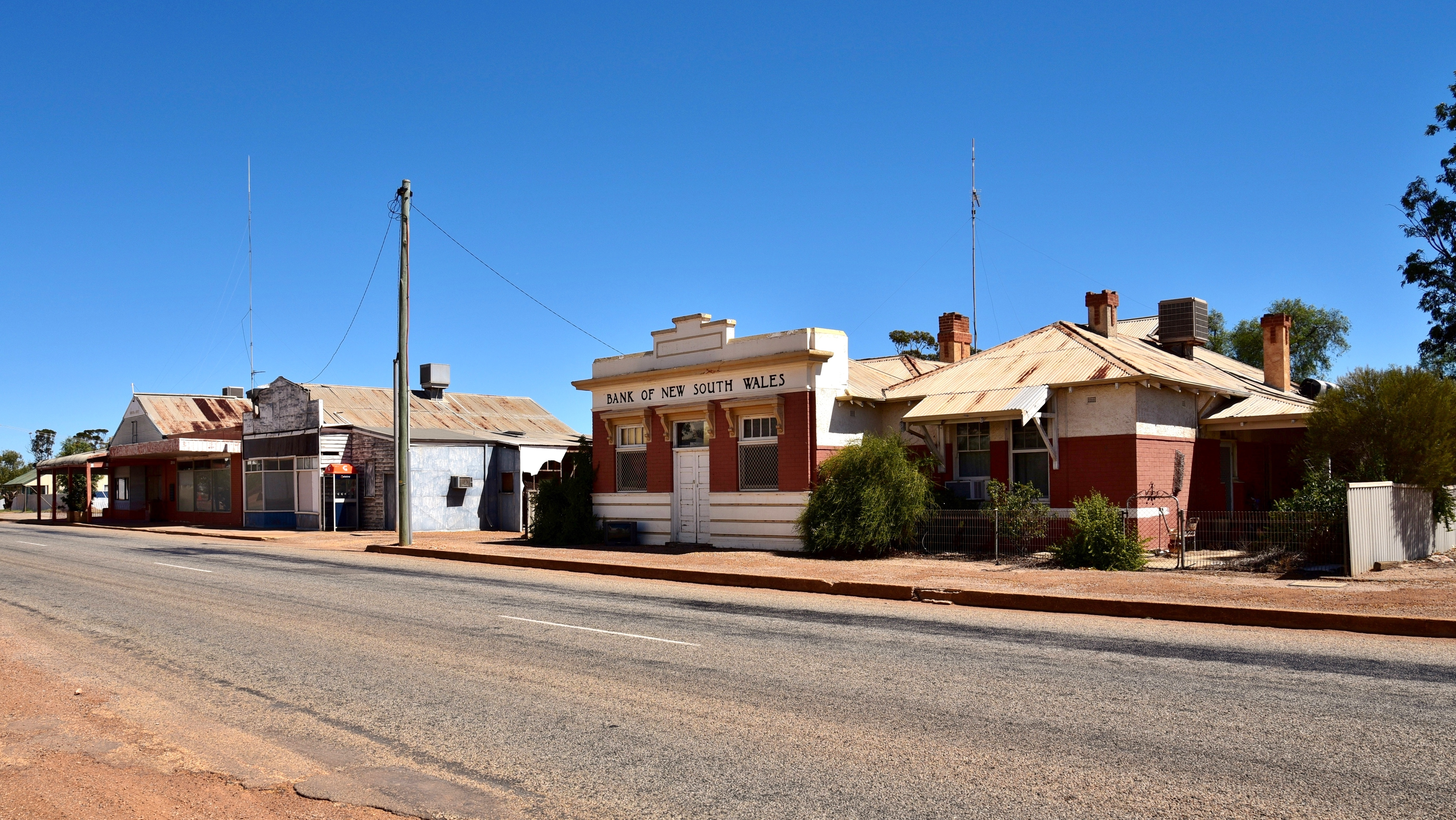 View of Leahy Street, Pithara, Western Australia